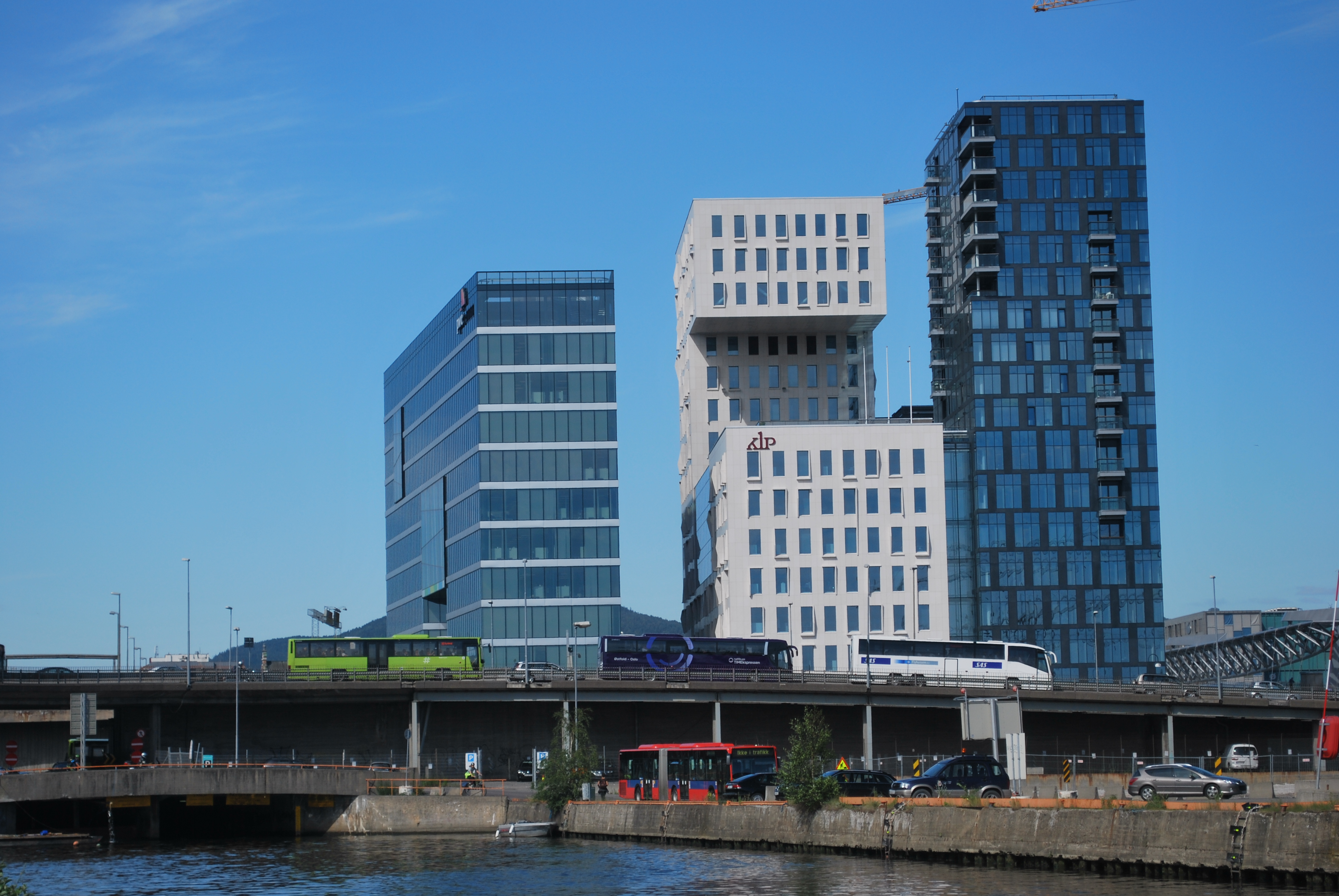 Barcode seen from Akerselva